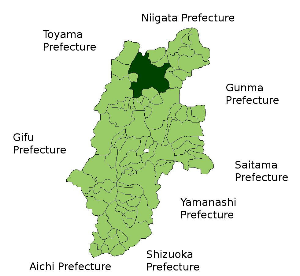 Location Map of Nagano in Nagano Prefecture, Japan